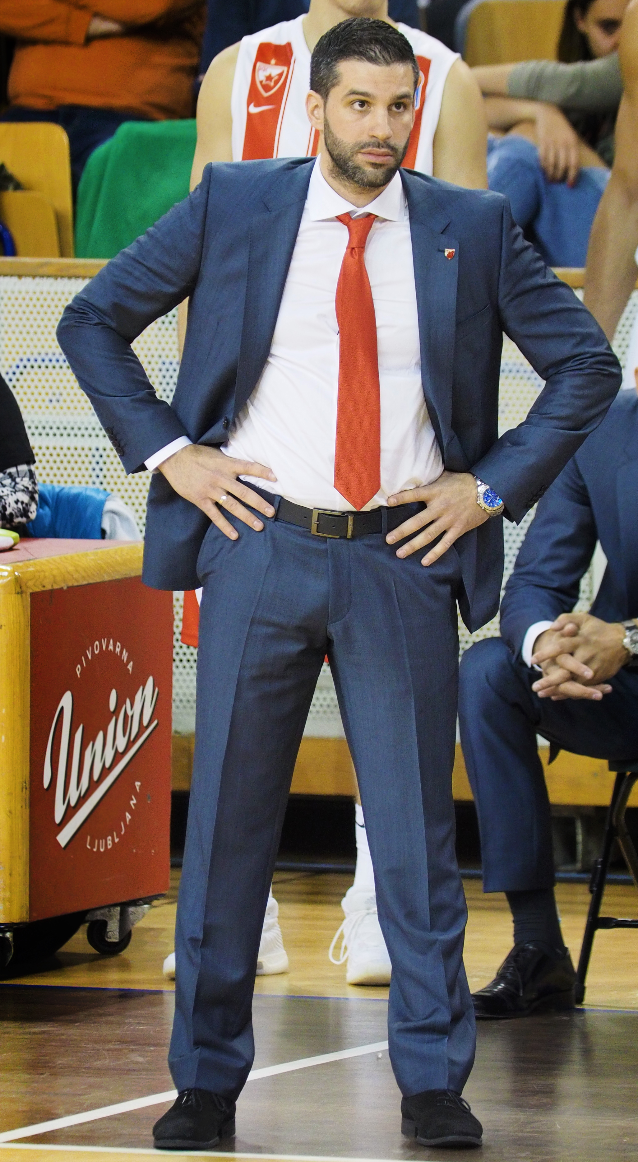 Dušan Alimpijević, coach of KK Crvena Zvezda, 2017 This photograph was taken with a Olympus E-M1.